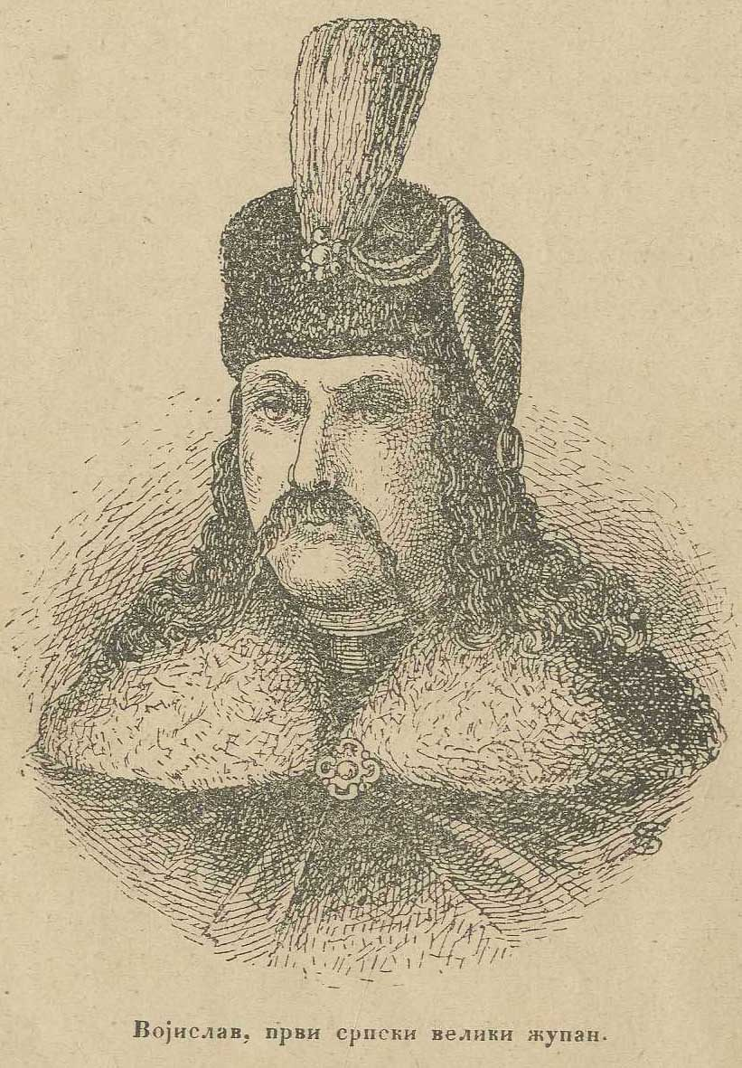 Višeslav, Prince of the Serbs